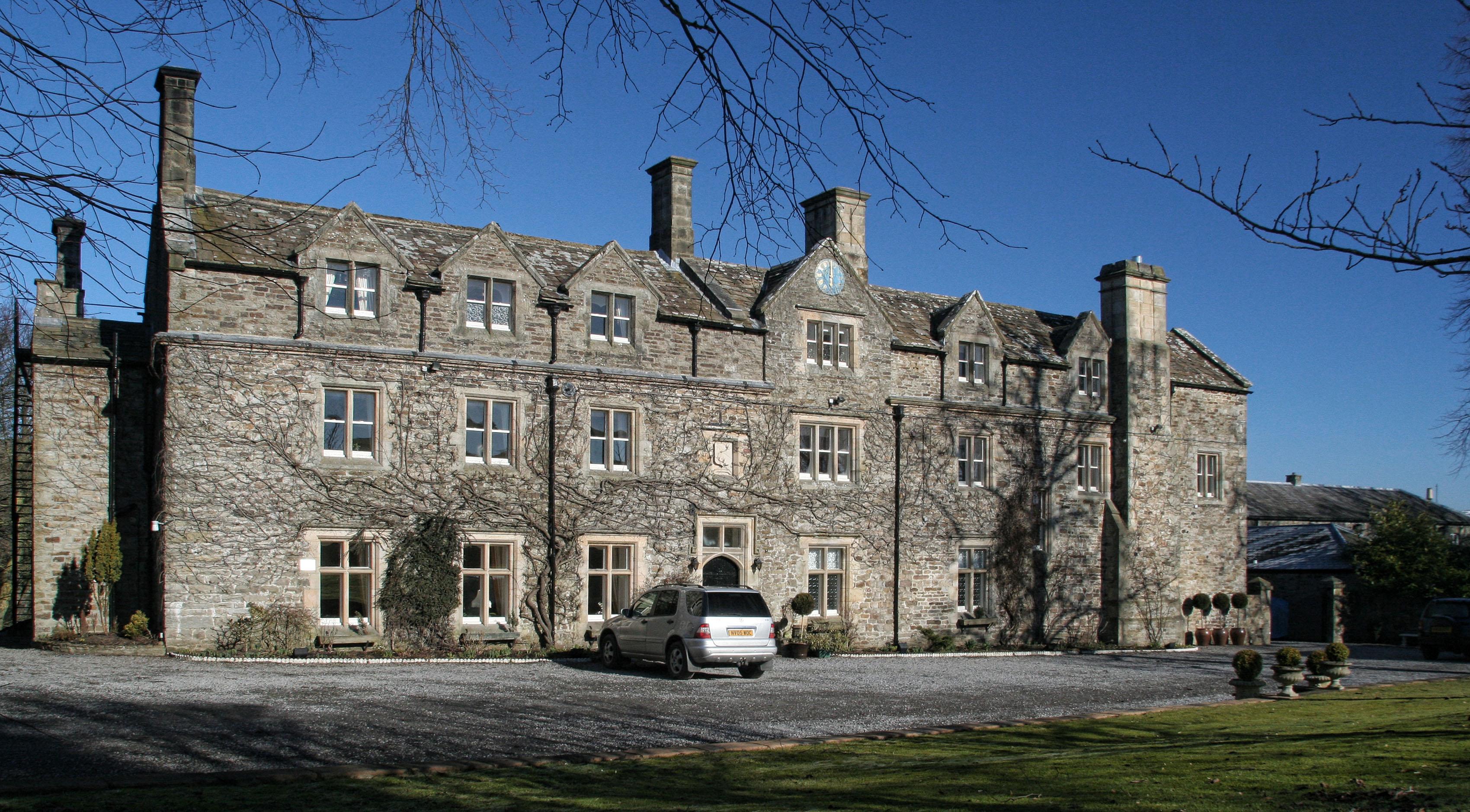 Horsley Hall Horsley Hall Hotel in Weardale.